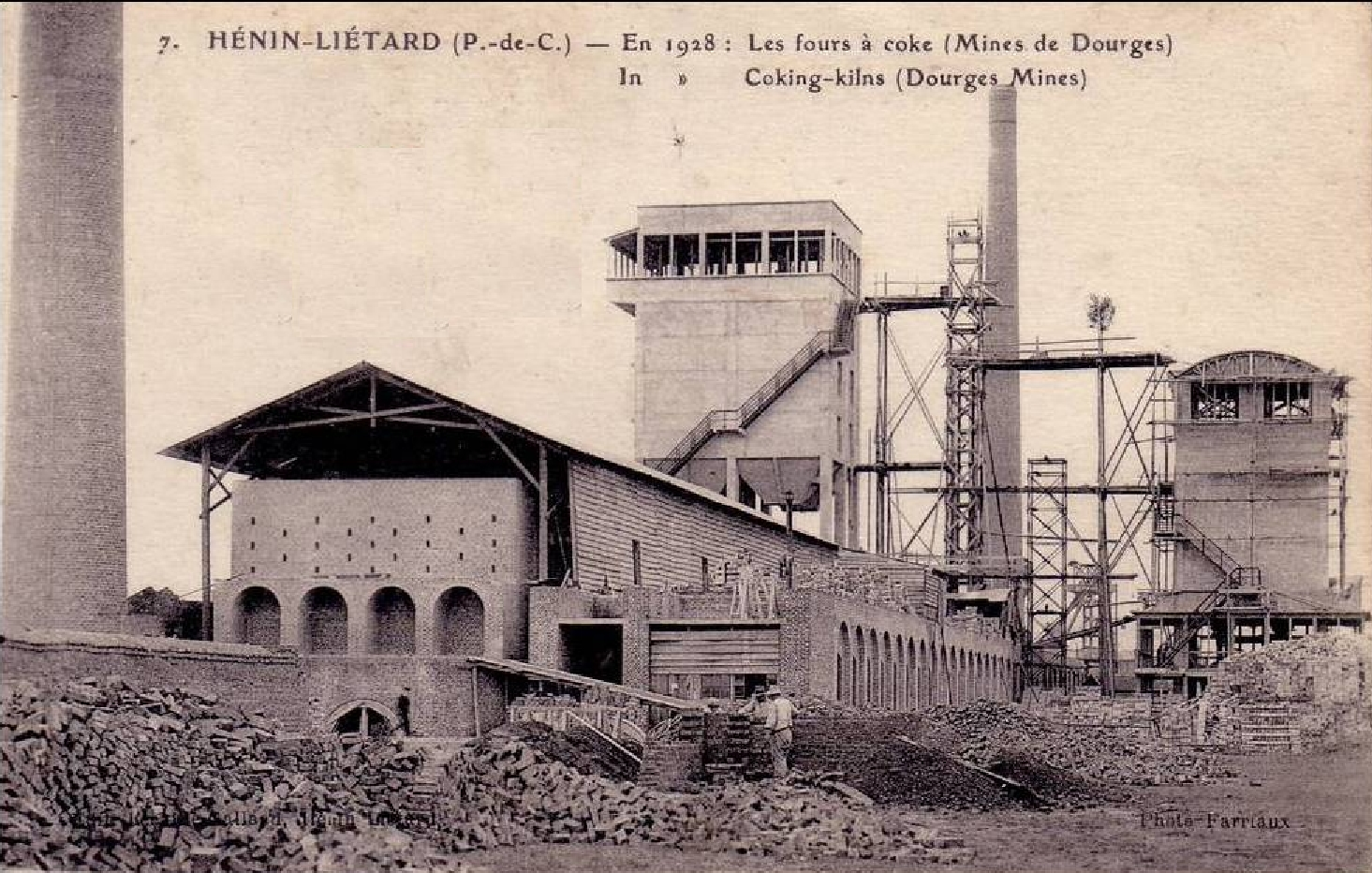 Compagnie des mines de Dourges, Pas-de-Calais, France.